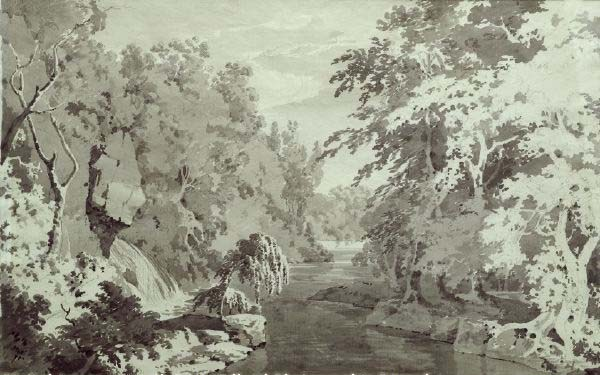 "Study for a painting of Dovedale" by Joseph Wright under the influence of Alexander Cozens (it says)